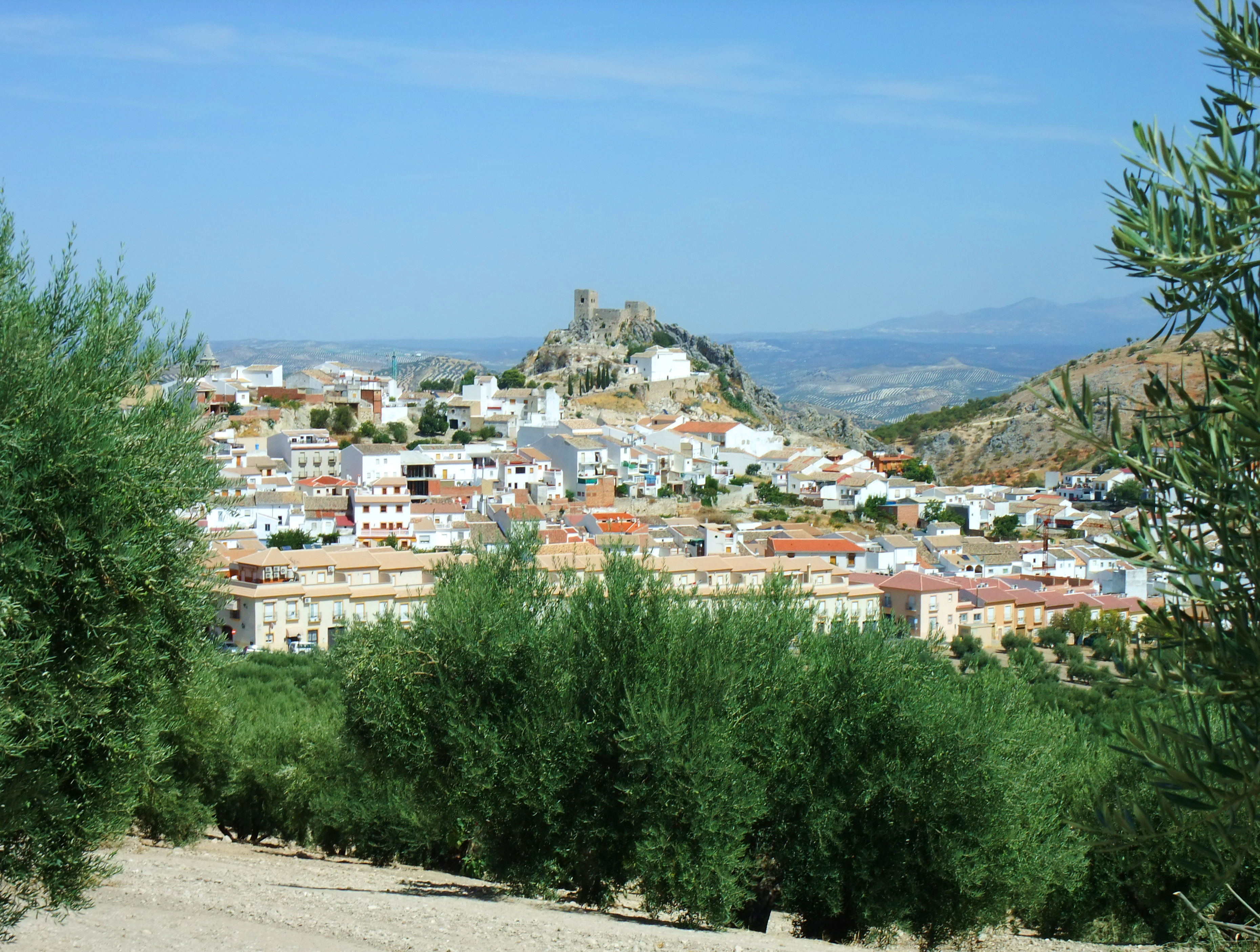 View at Luque from the south, Province Córdoba in Spain